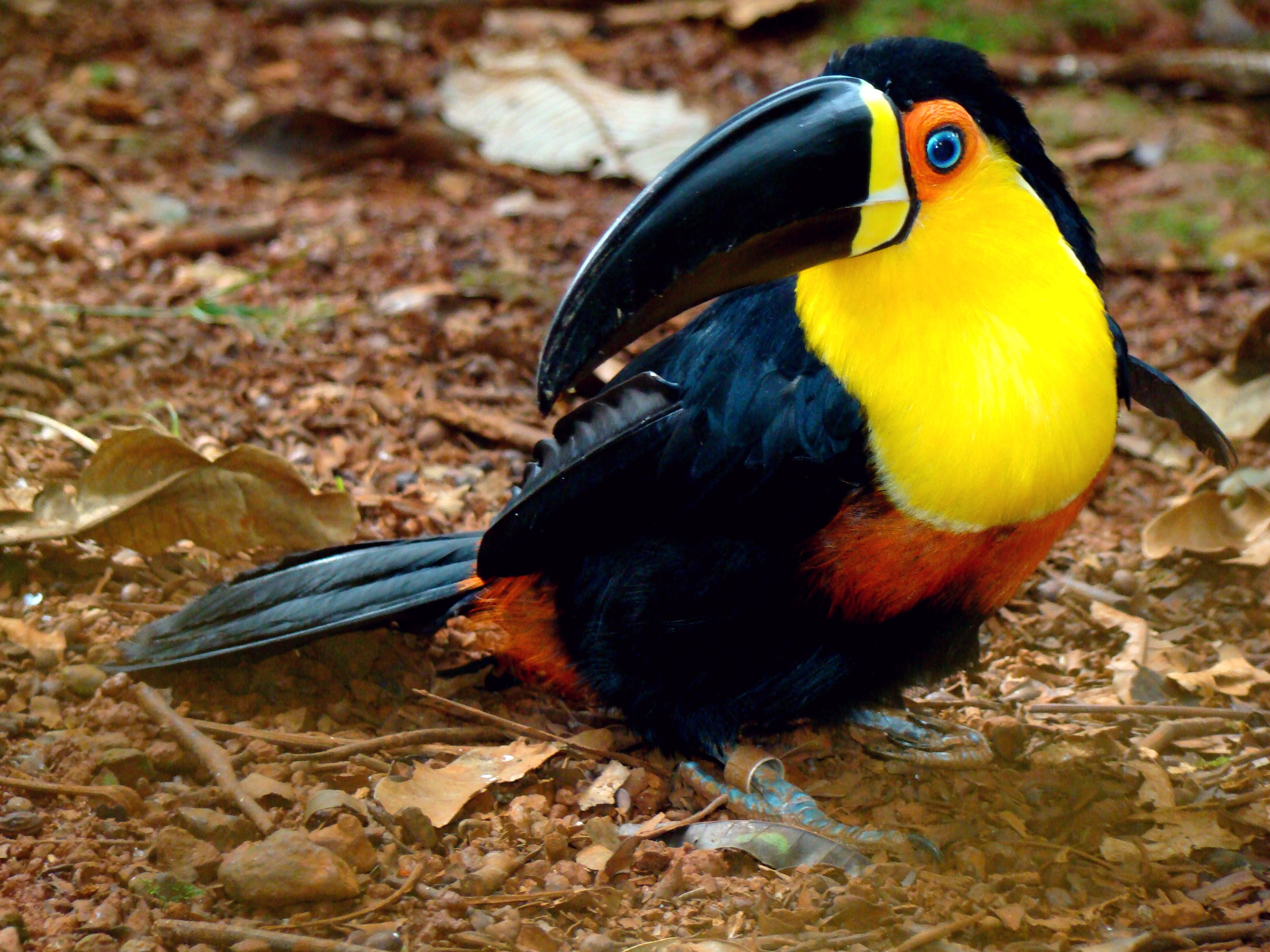 Channel-billed Toucan (Ramphastos vitellinus ariel). It has a ring on its right leg. Subspecies ariel resembles the nominate, but the base of its bill is yellow, the skin around the pale blue eye is red and the entire throat and chest are orange.